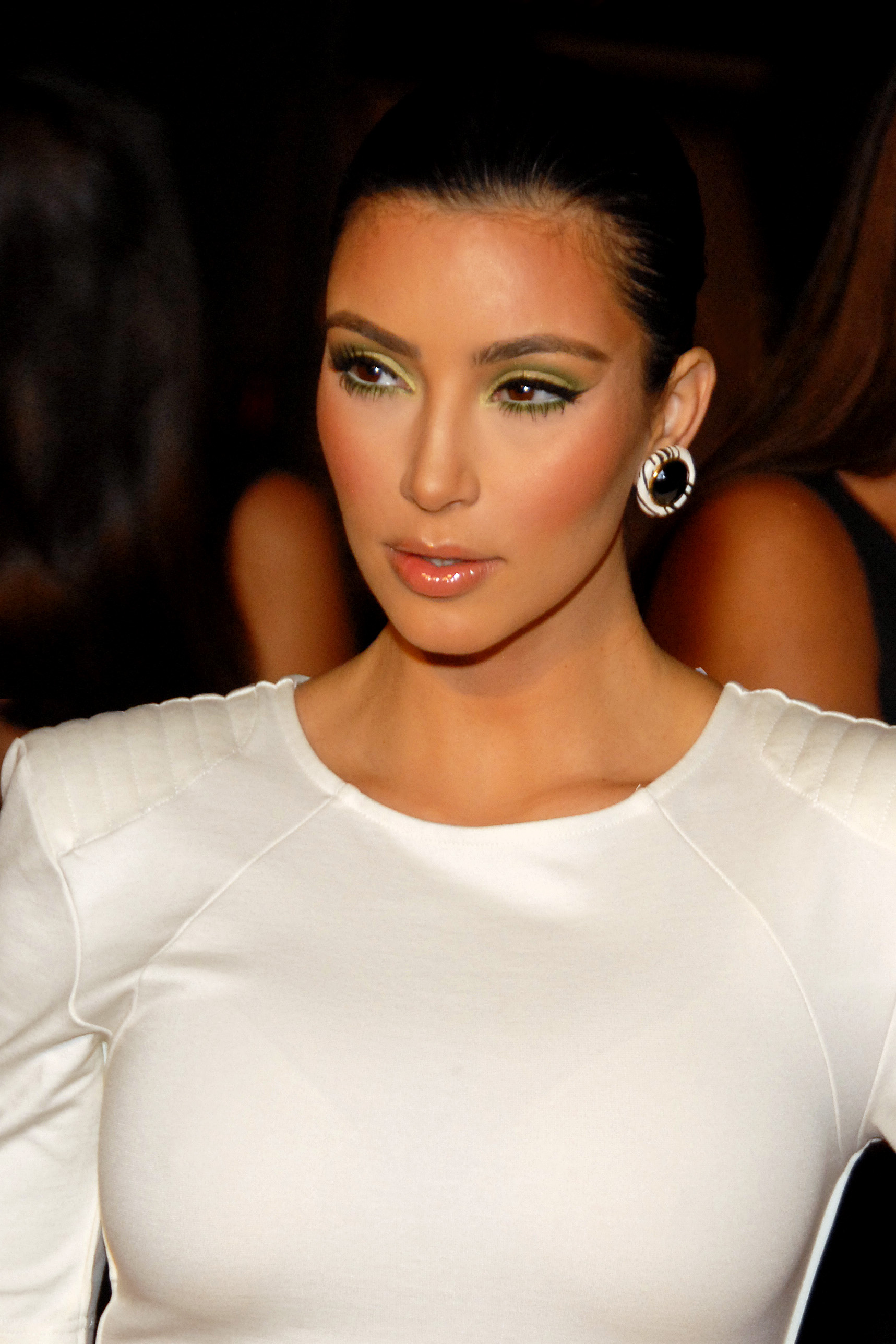 Kim Kardashian attending Maxim's 10th Annual Hot 100 Celebration, Santa Monica, CA on May 13, 2009 - photo by Glenn Francis of